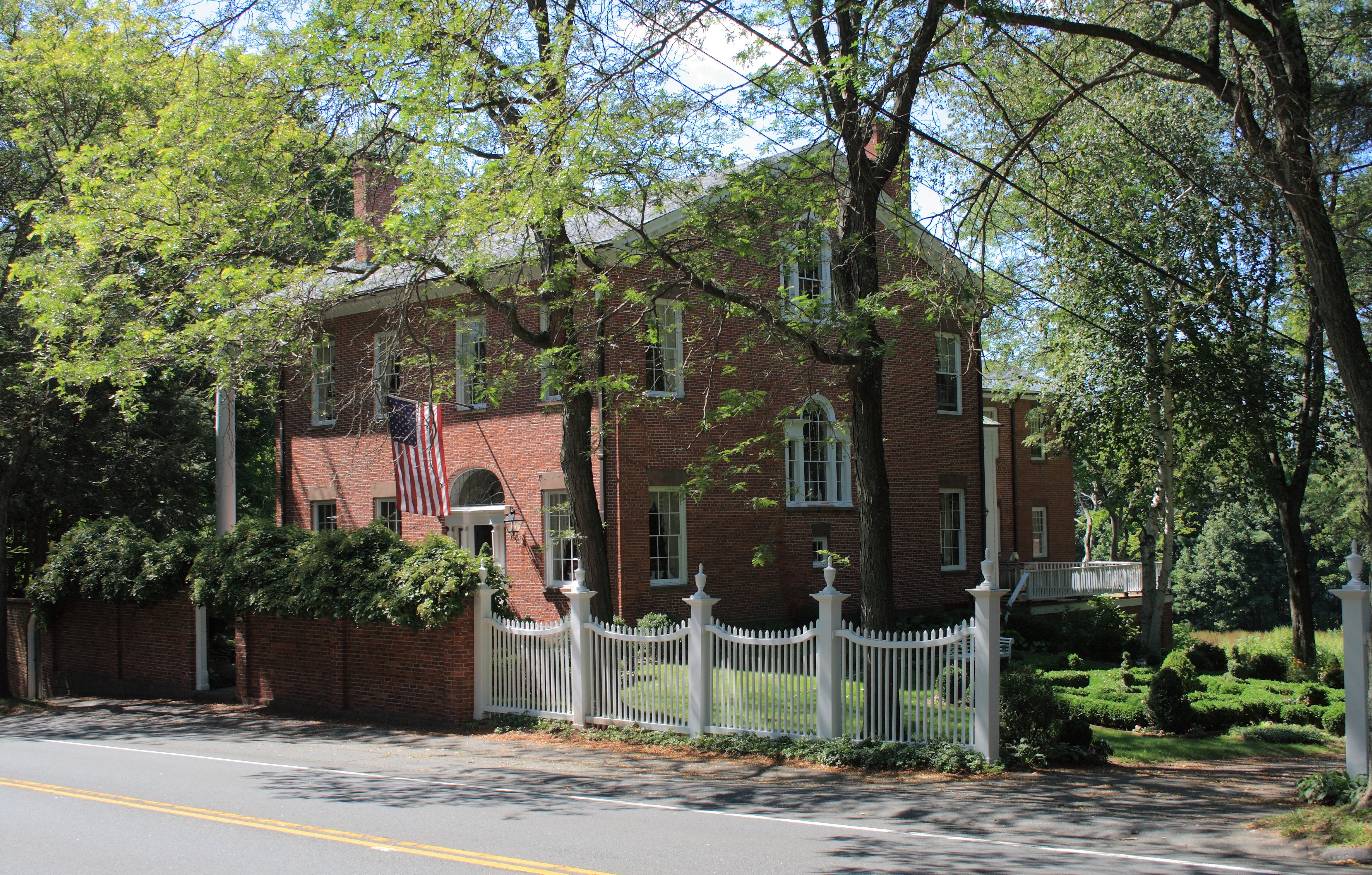 The Gen. George Cowles House, 130 Main St., a Registered Historic Place in Farmington, Connecticut